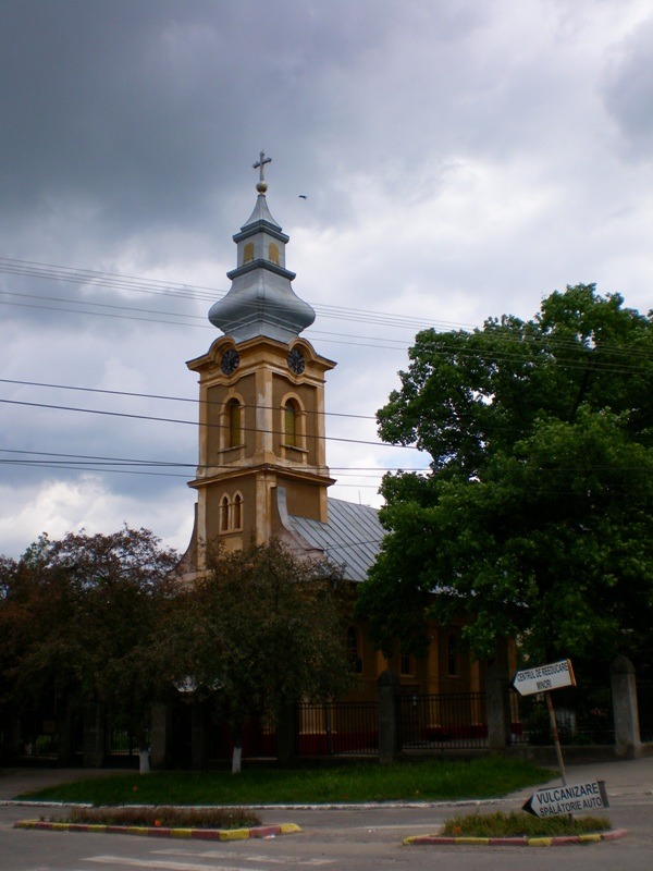 Orthodox church in Buziaș, Romania